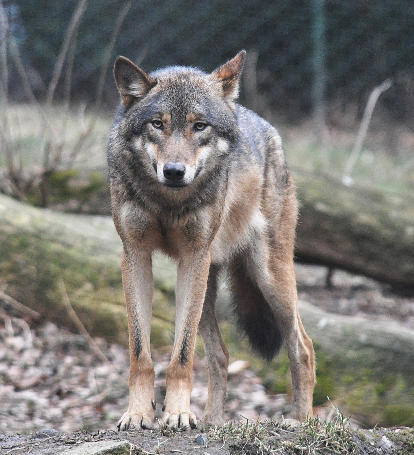 European grey wolf, Prague zoo.